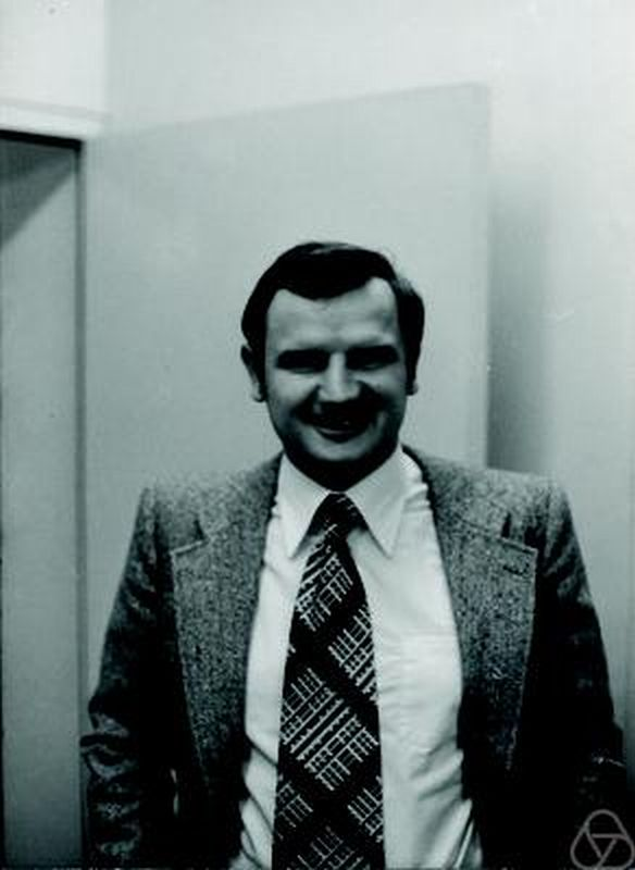 Günther Trautmann, Kaiserslautern 1976